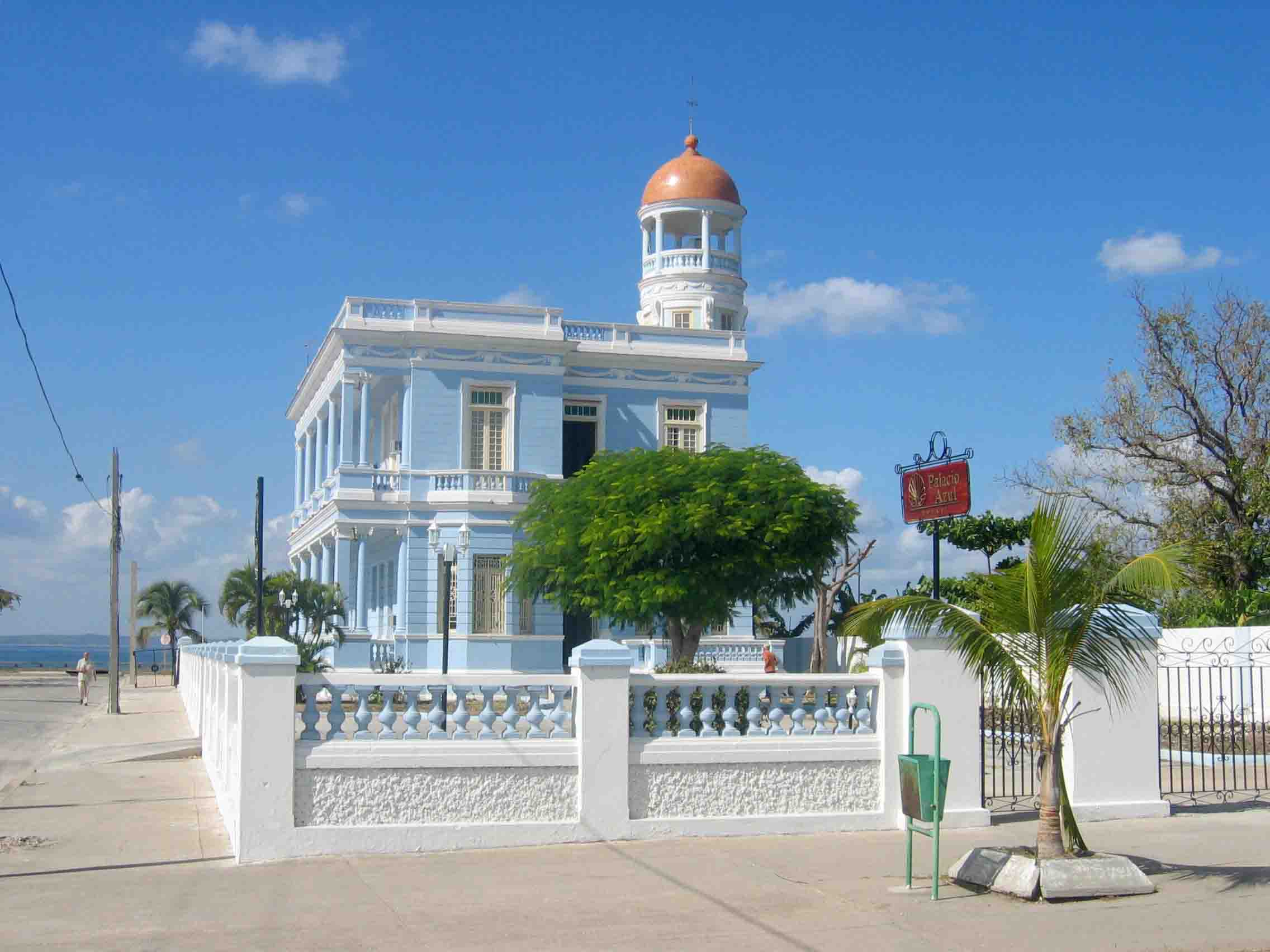 Photograph by Dirk van der Made (User:DirkvdM - for more photos see user:DirkvdM/Photographs). The 'Palacio Azul' (blue palace), a state hotel in Cienfuegos, Cuba, 6 January 2004.